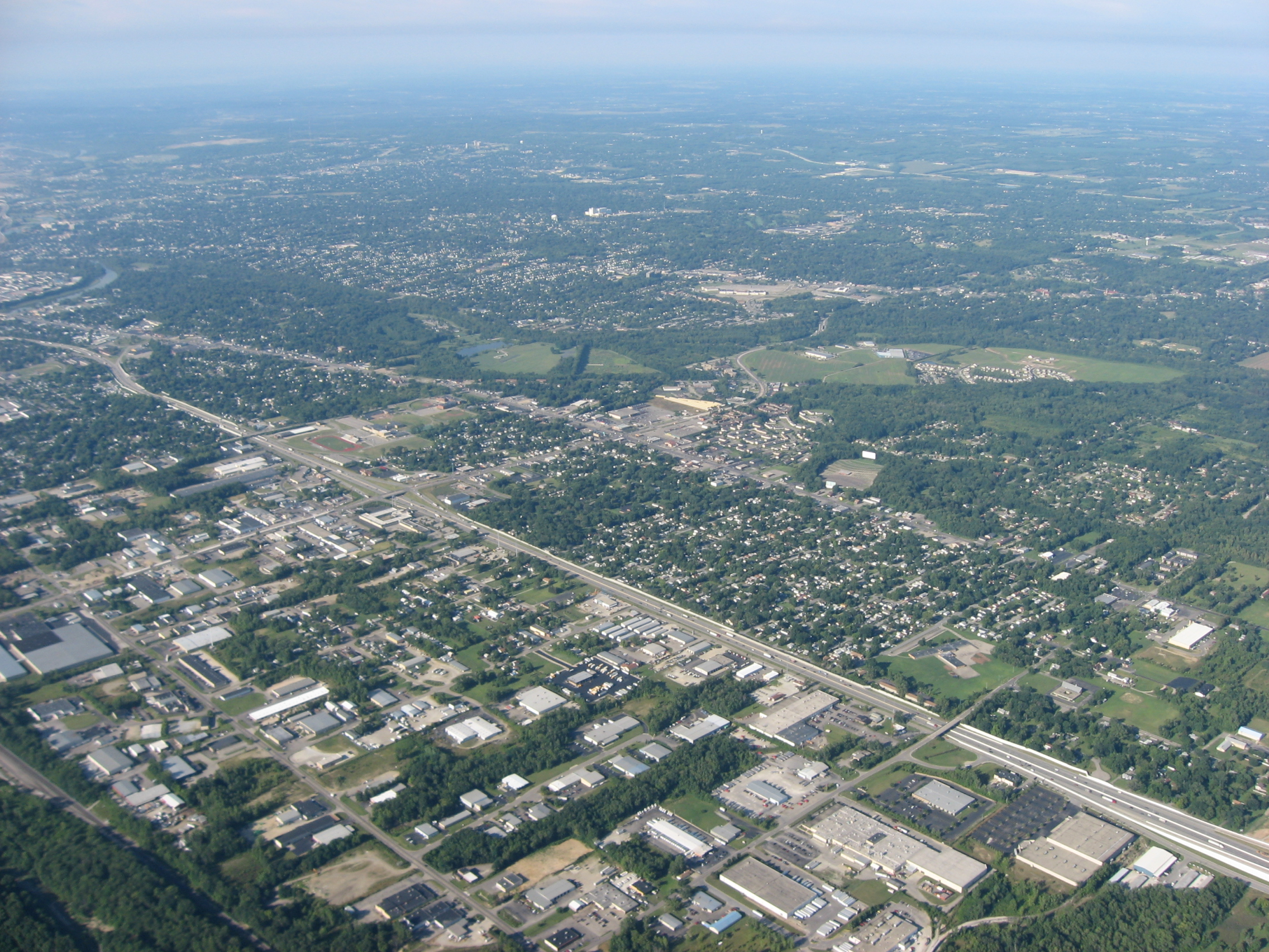 Aerial view of Northridge, a community on the northeast side of the city of Dayton in Montgomery County, Ohio, United States. Interstate 75 is clearly visible in the middle of the picture, with the major intersection toward the left side of the picture being the highway's interchange with Needmore Road. The Great Miami River is visible on the far left edge of the picture. Picture taken from a Diamond Eclipse light airplane at an altitude of 4,480 feet MSL and a bearing of approximately 220º.